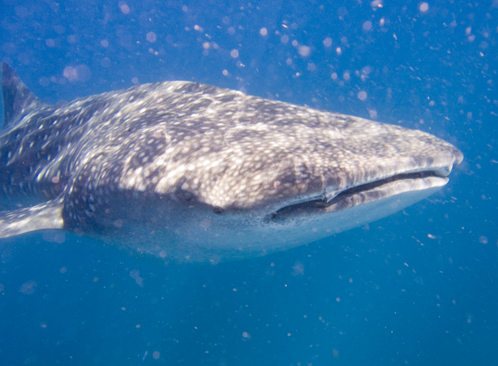 "whale shark" Underwater tourist shot of a Whale Shark off Tofo Beach, Mozambique